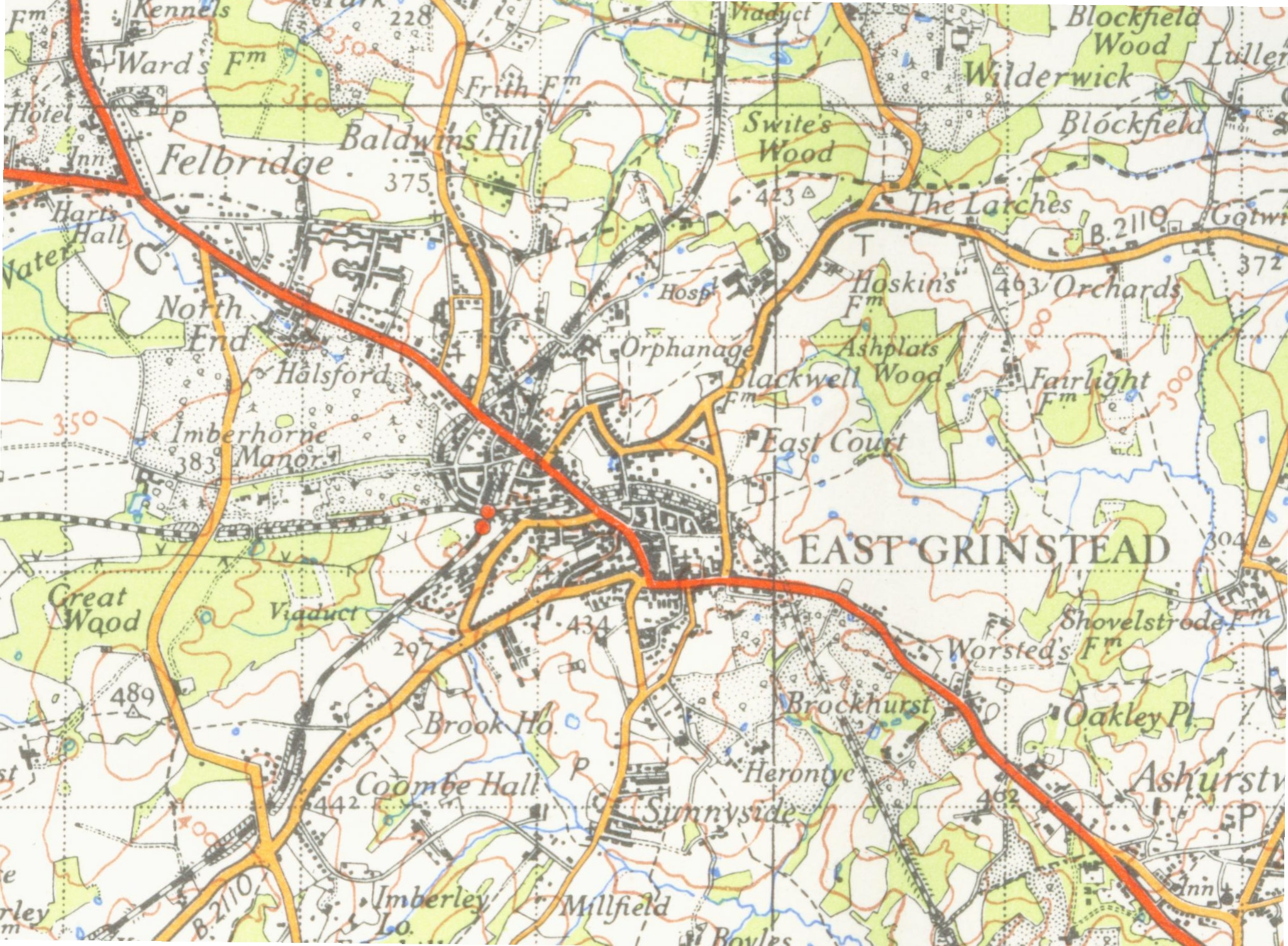 map of East Grinstead 1 inch to the mile scale scanned at 600 DPI